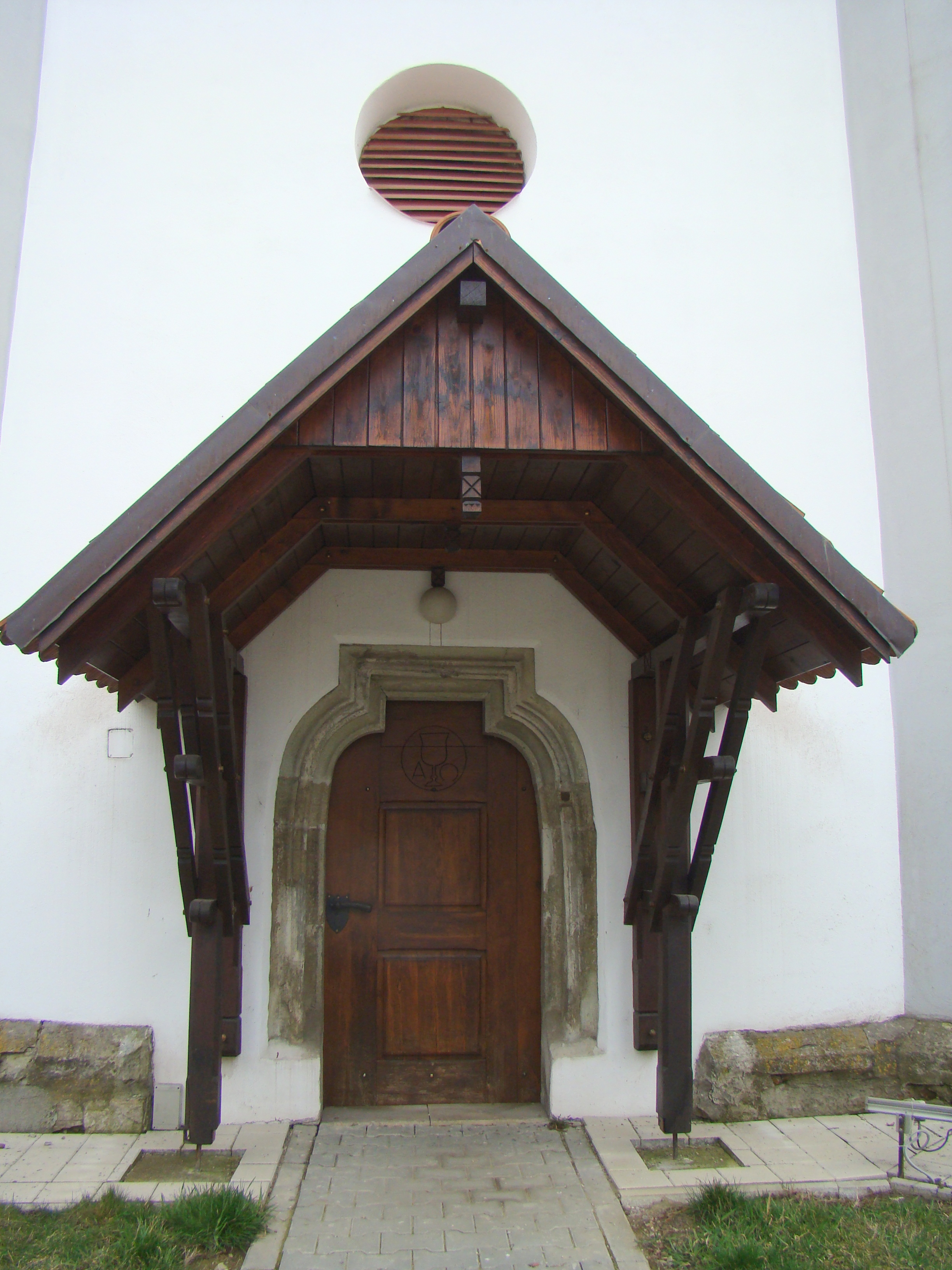 Reformed church in Beclean, Bistrița-Năsăud county, Romania